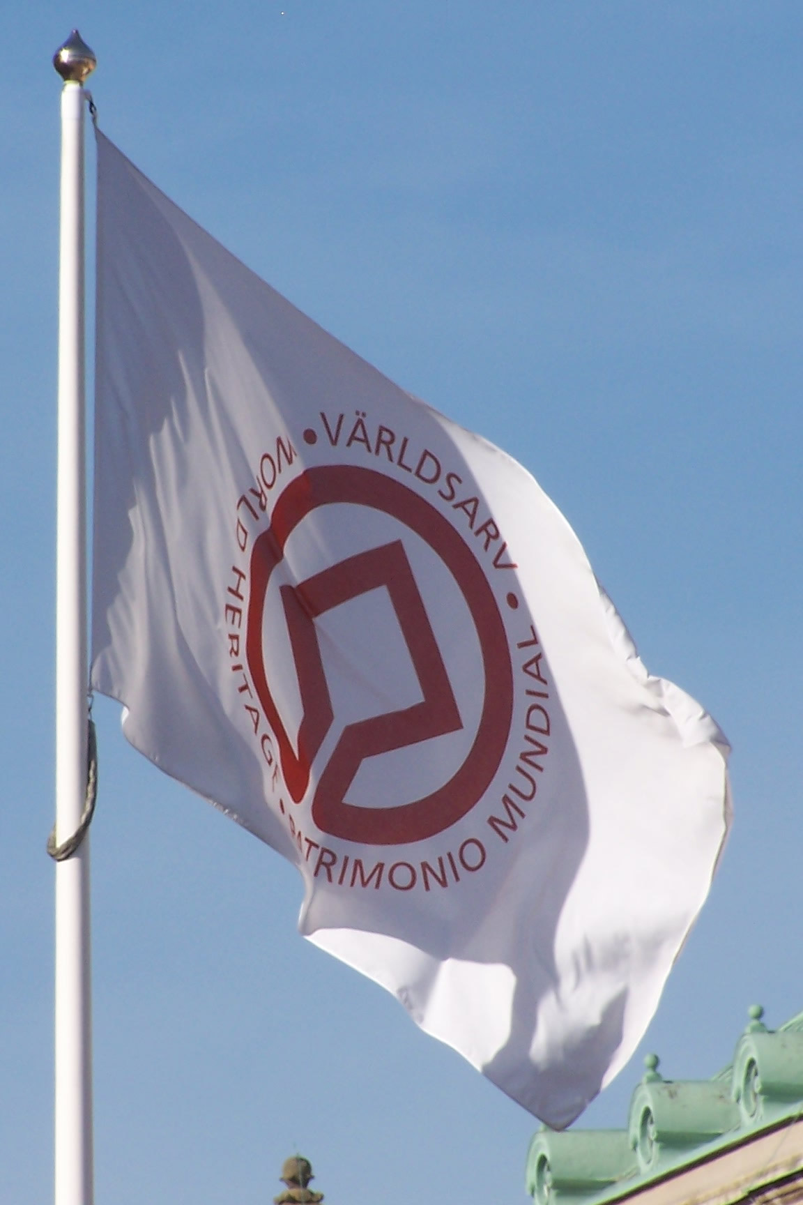 Cropped image to get a standing image (proportions 2/3 instead of 4/3)